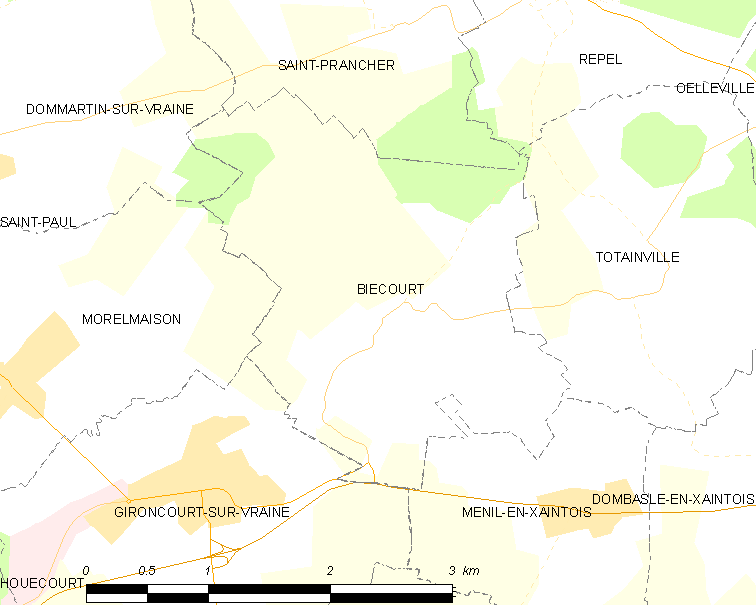 Map of French municipality Biécourt